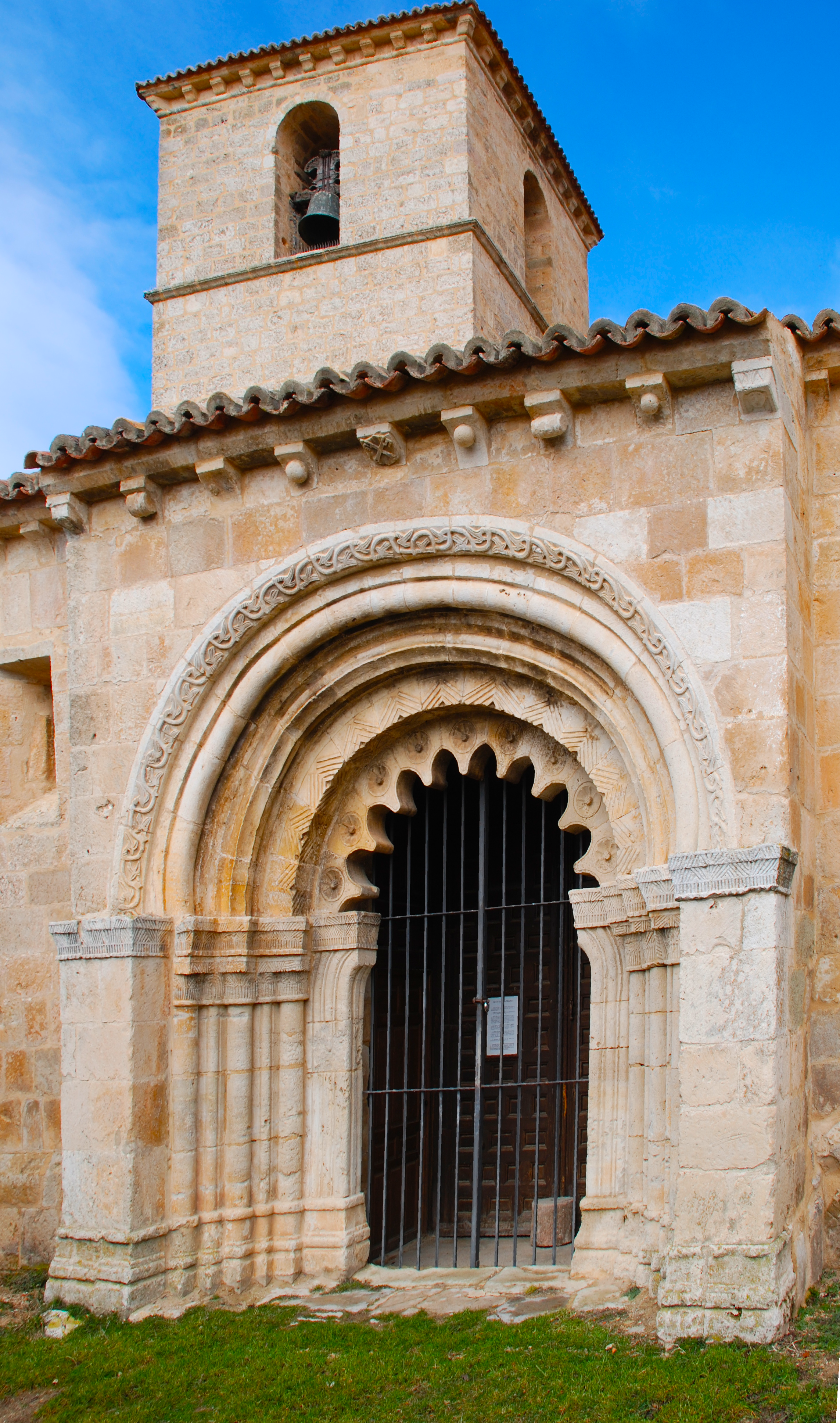 San Pedro Church, Villacadima (Guadalajara), Castilla-La Mancha, Spain. Romanesque s-XII.